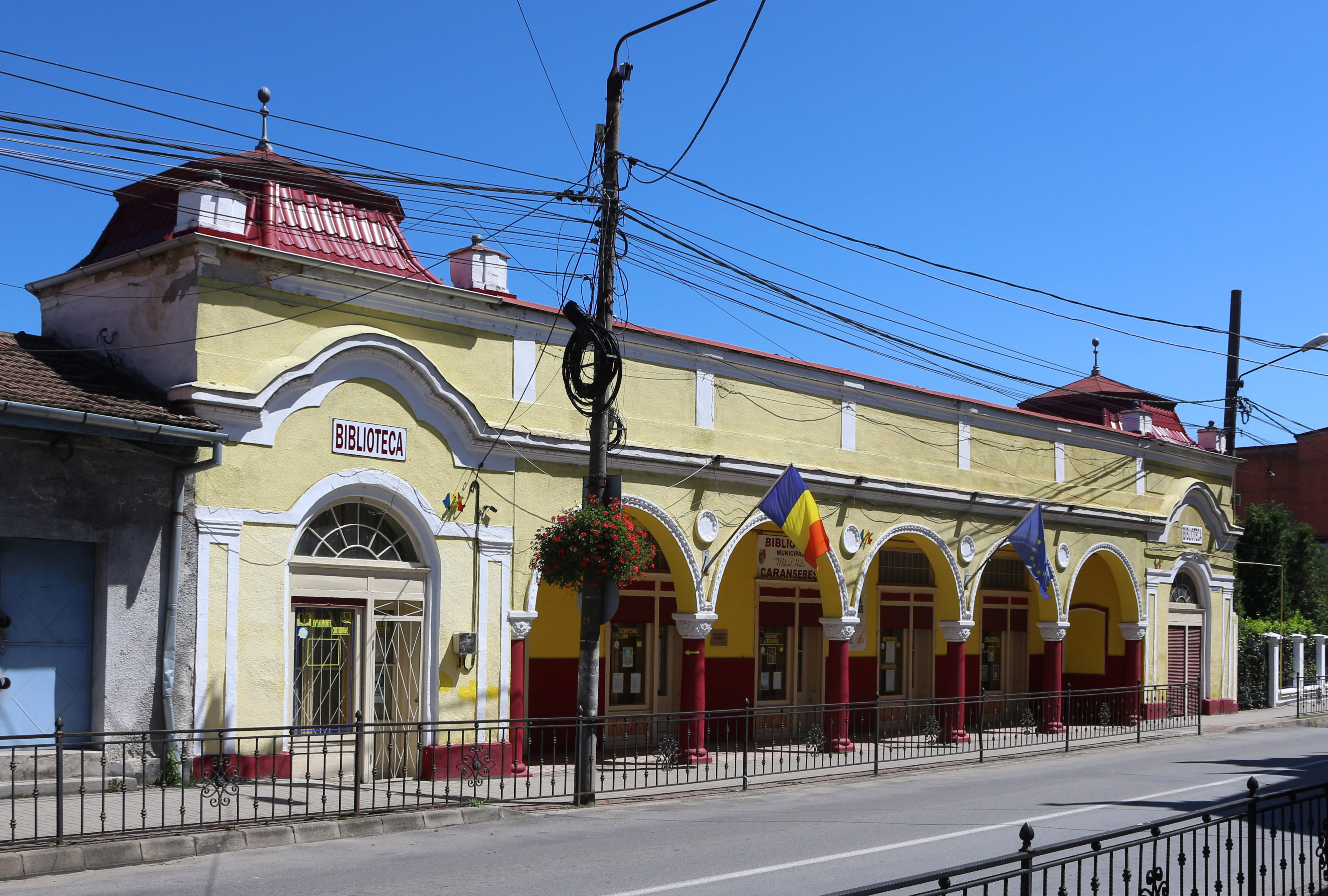 Mihail Halici Library, Caransebeș, Mihai Viteazul St., no. 39, built 19th century.